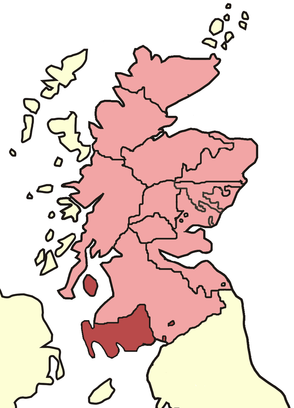 Diocese of Scotland in the reign of king David I. Based on William Forbes Skene's map of 1887.